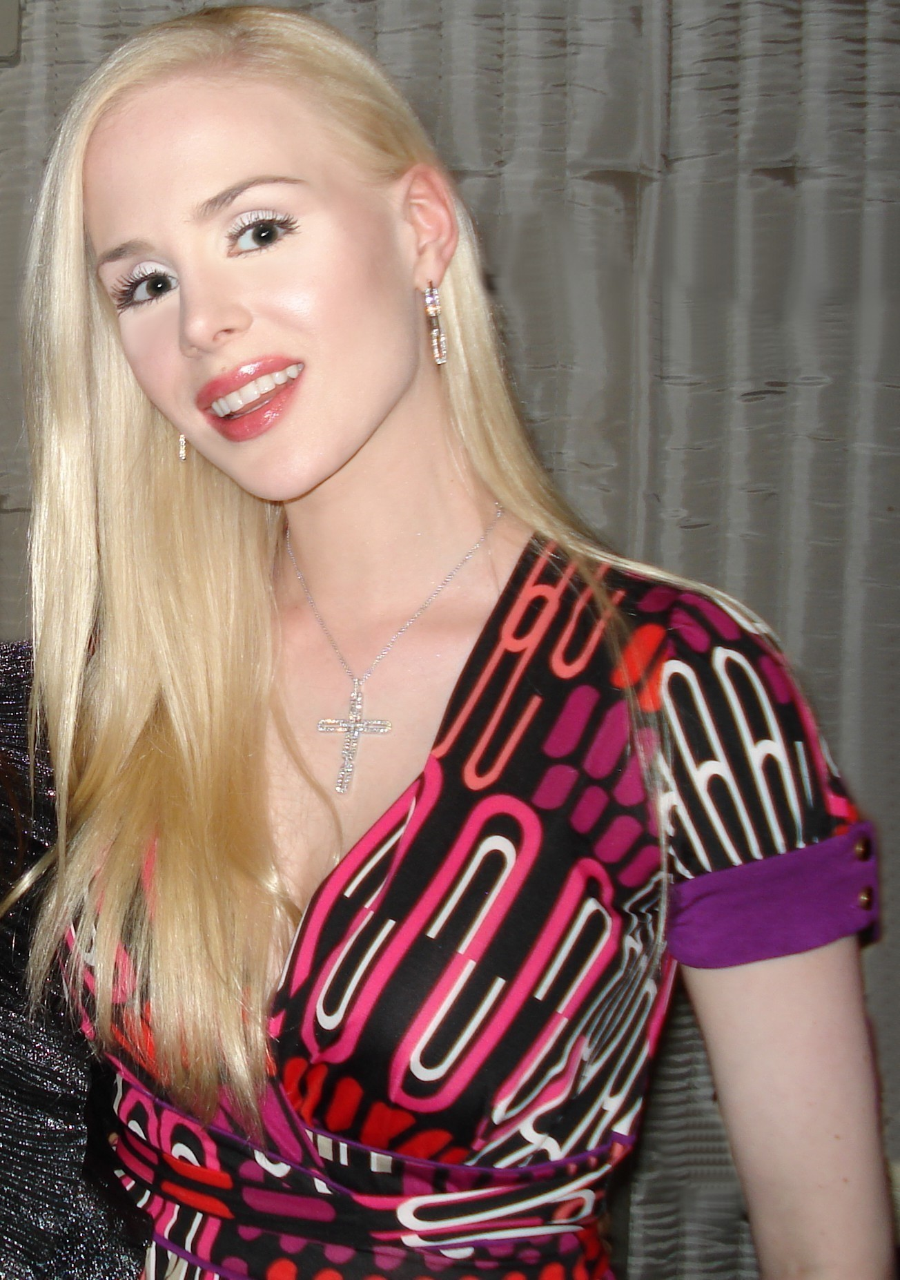 Ariane Sommer in Los Angeles September 2009